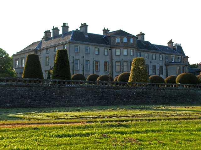 Keir House. Formerly the ancestral home of the Stirling family. It appears to me that it is virtually impossible to photograph it from within its grid-square.